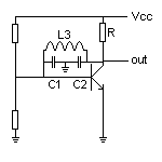 Colpitts oscillator